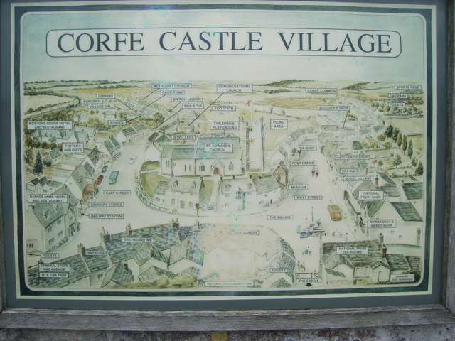 Corfe Castle - Village map This map is on the wall outside the post office.